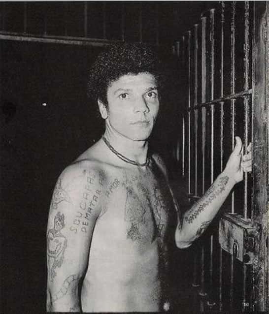 Pedrinho Matador, 1991